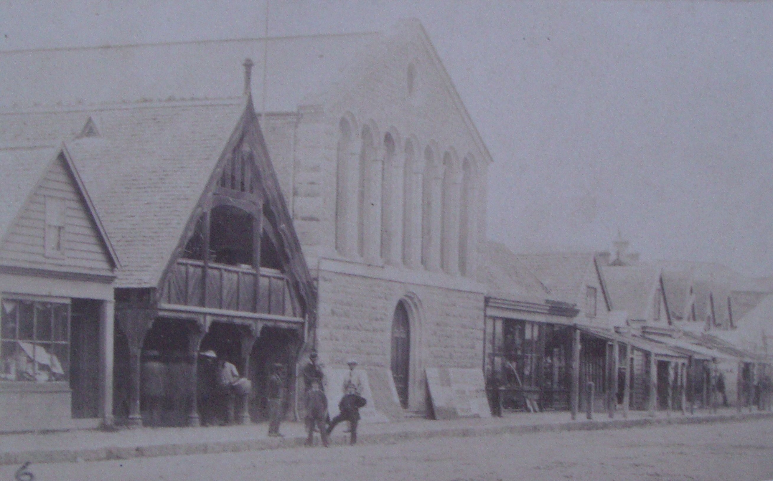 The first two town halls in Christchurch. The gabled timber building with all the people in front of it was the first, designed by Mountfort and Luck, and built in 1857. To its right is the 1863 stone town hall by Samuel Farr. The latter was damaged in the 1869 earthquake and burned down in April 1873.